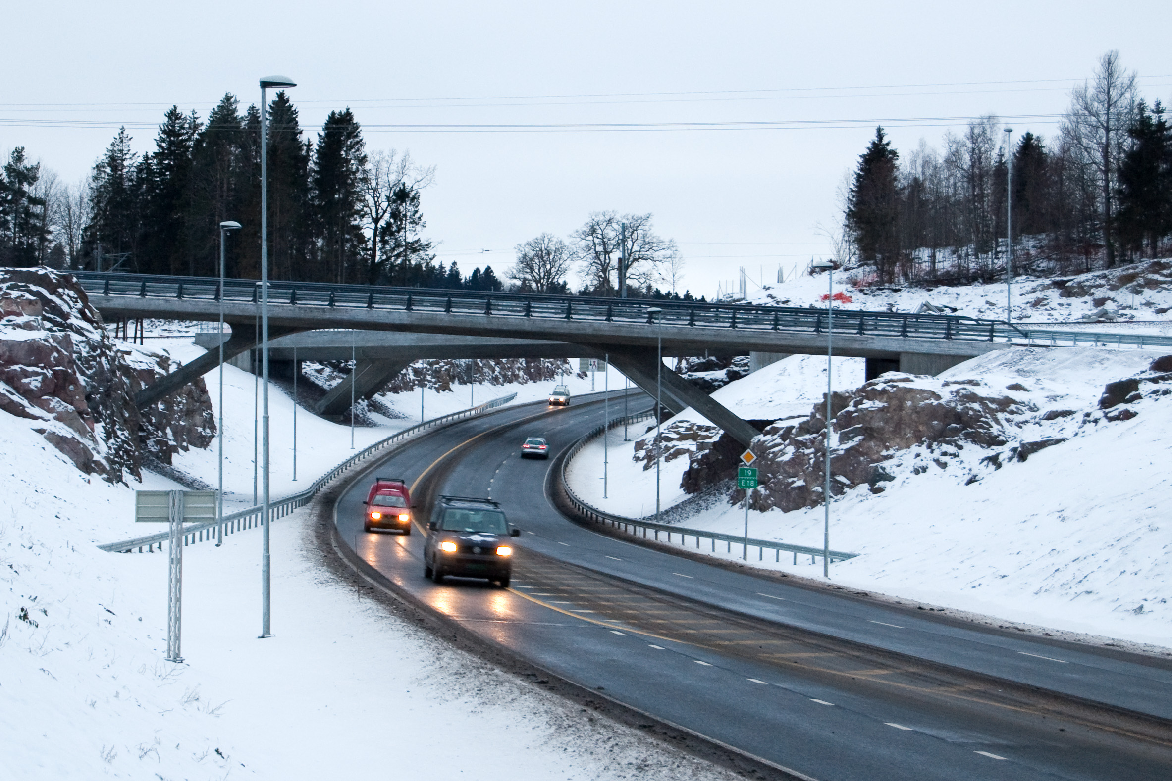 National road 19, at Skoppum, Horten, Vestfold, Norway. Seen from the east.